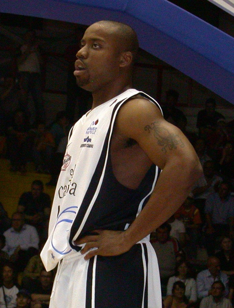 Description: Brandon_Hunter of Carpisa Napoli 2005-2006 Source: self-made Location: Naples, Italy Photogr Massimo Finizio